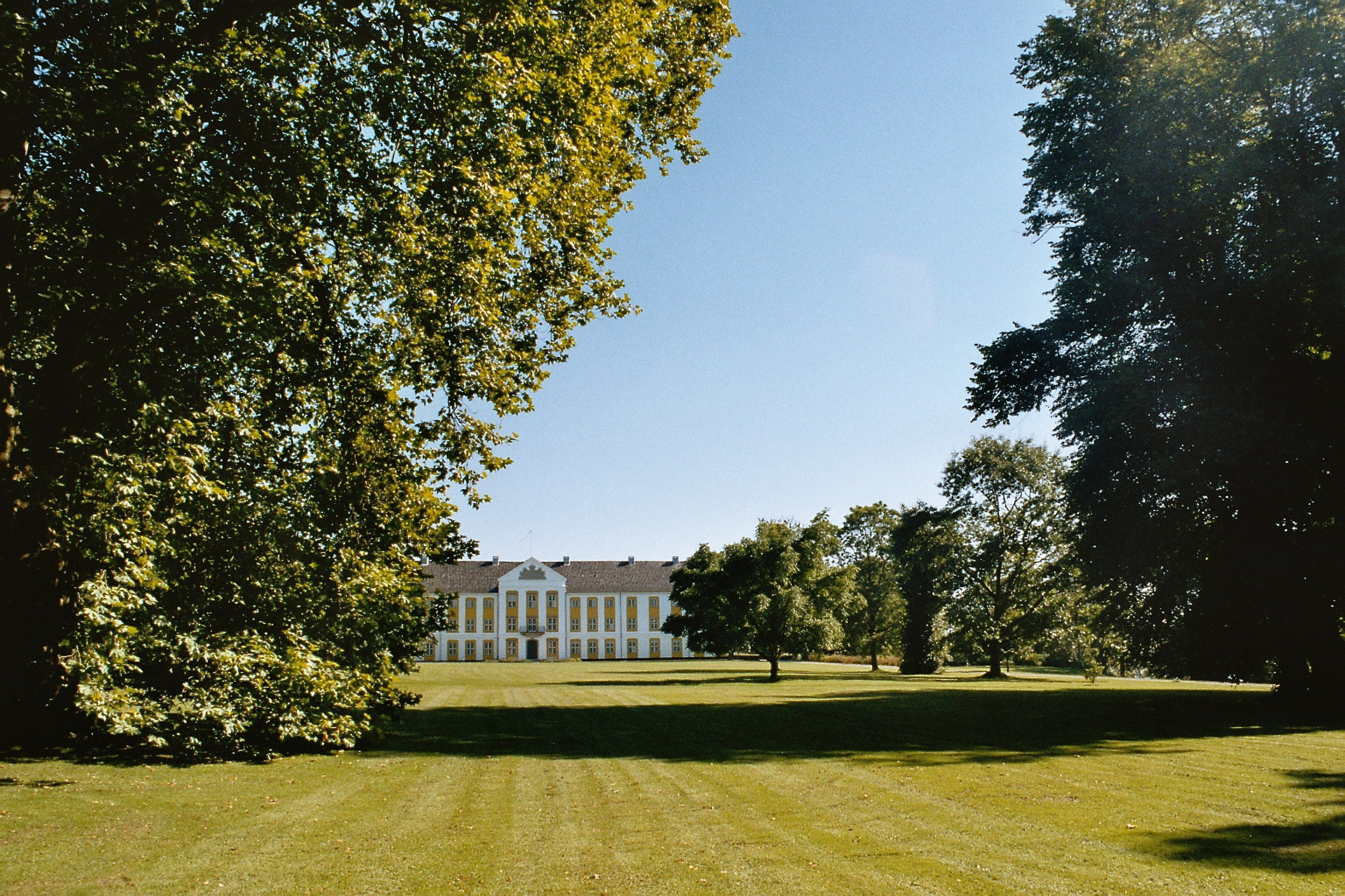 Augustenborg (Als island), view from the park to the château